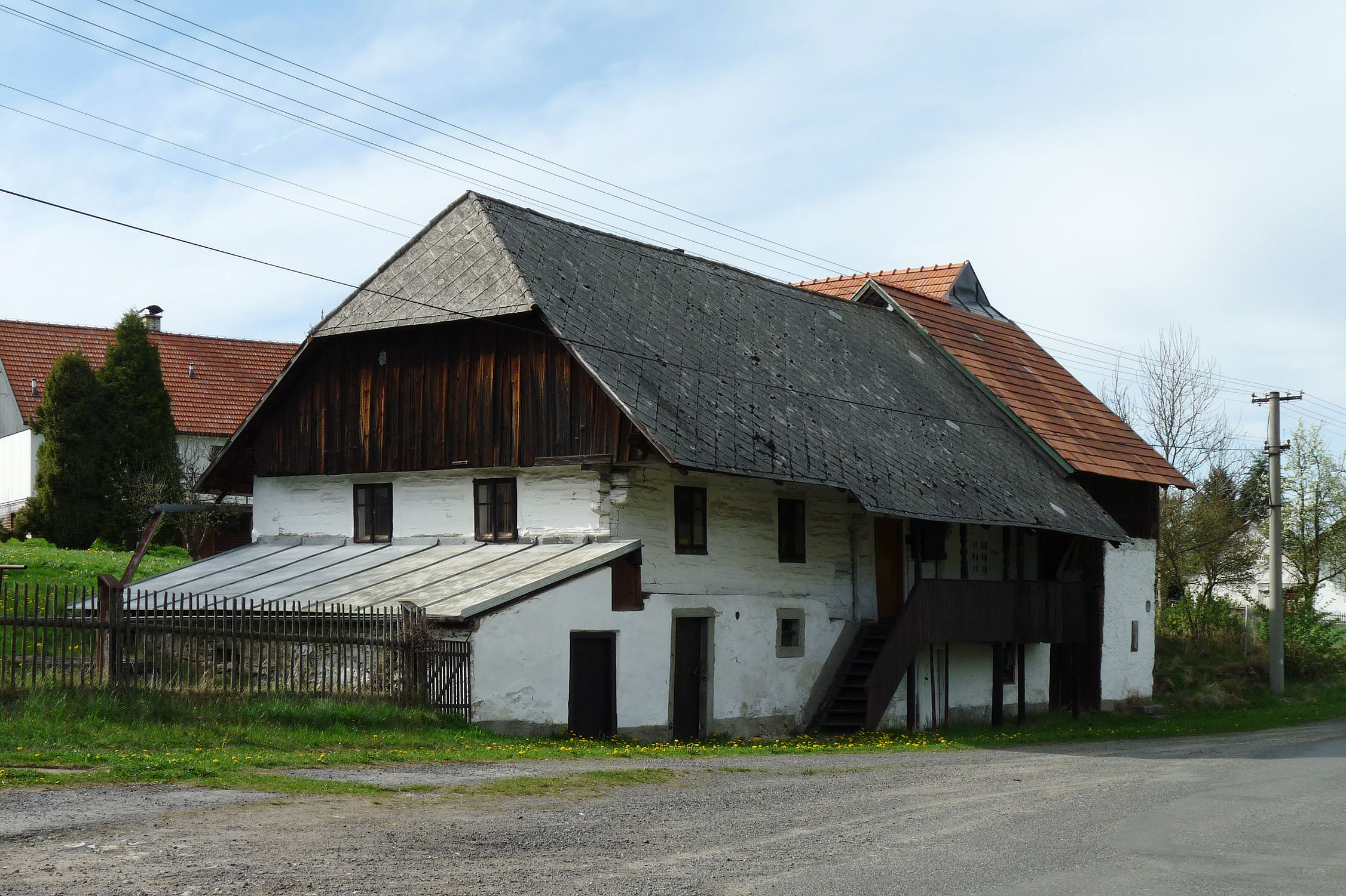 Former Jewish house in Chlistov, Klatovy District, Czech Republic